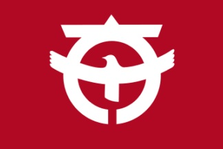 Flag of Taishi Osaka